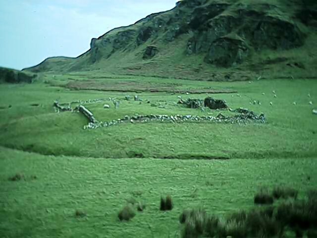 Remains of Chapel and cemetery, Sanda Island, Mull of Kintyre.